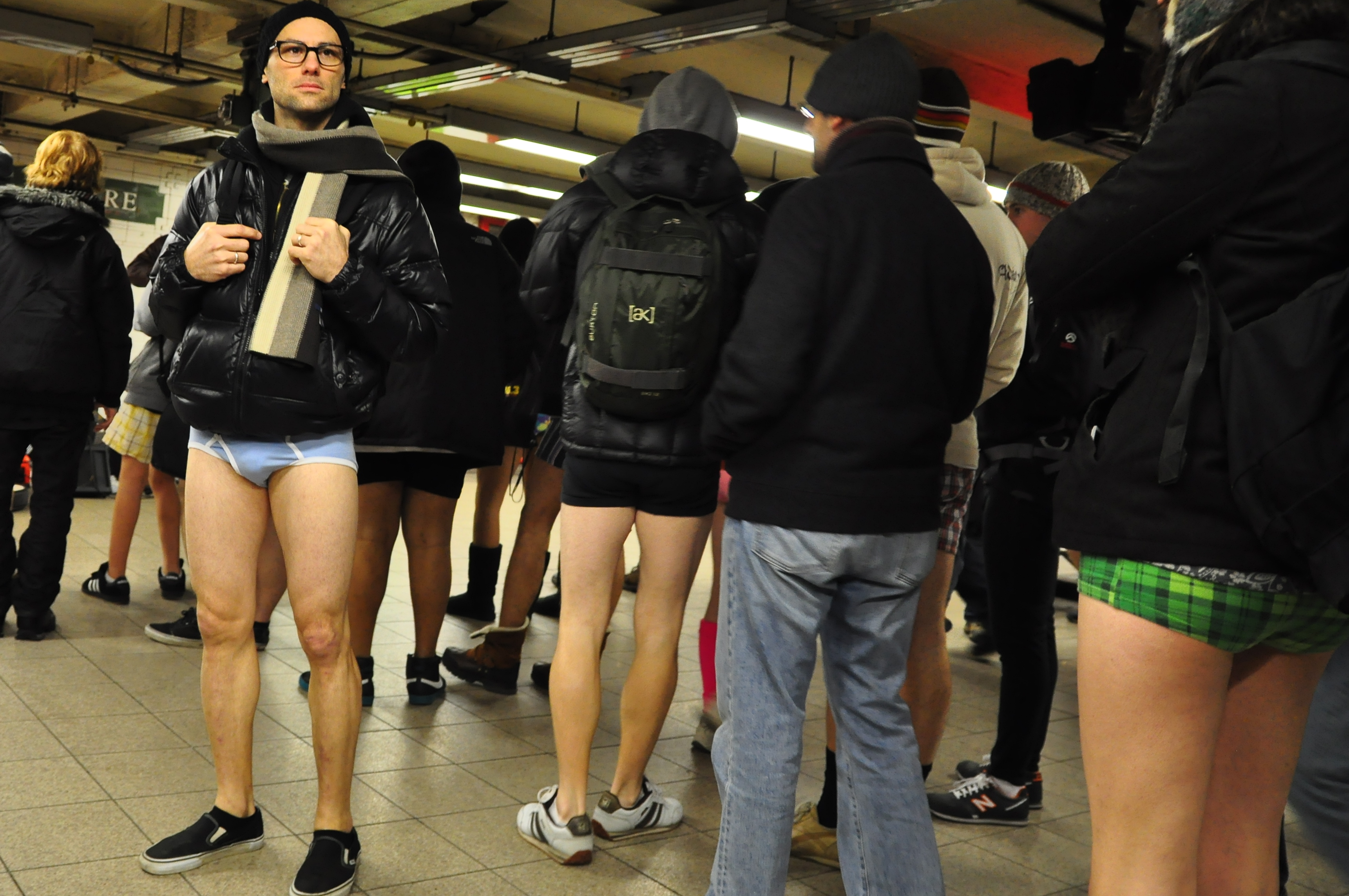 Participants of No Pants Subway ride at Times Square